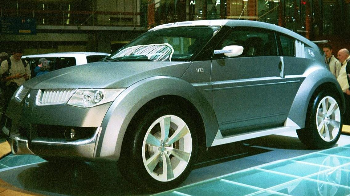 Mitsubishi Motors Company